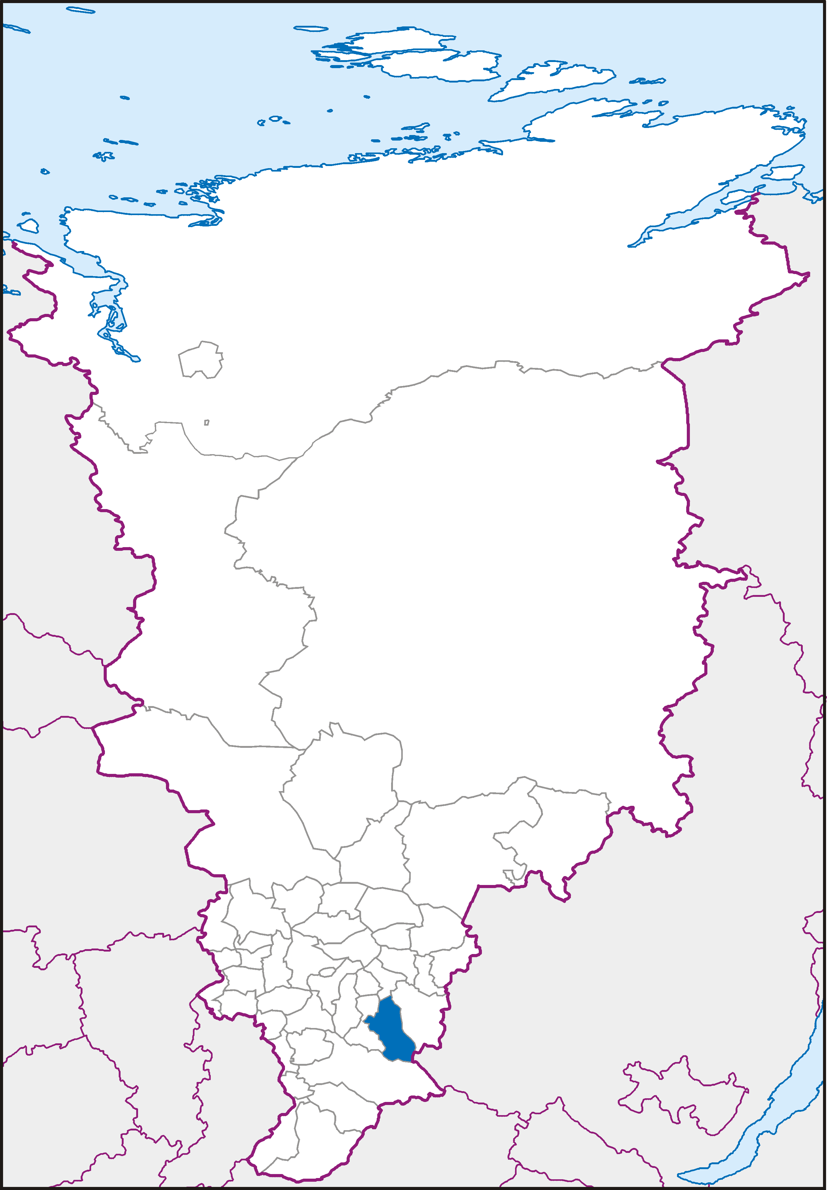 Map of Krasnoyarsk Krai in Albers Equal-Area Conic projection (Central Meridian = 95° E)